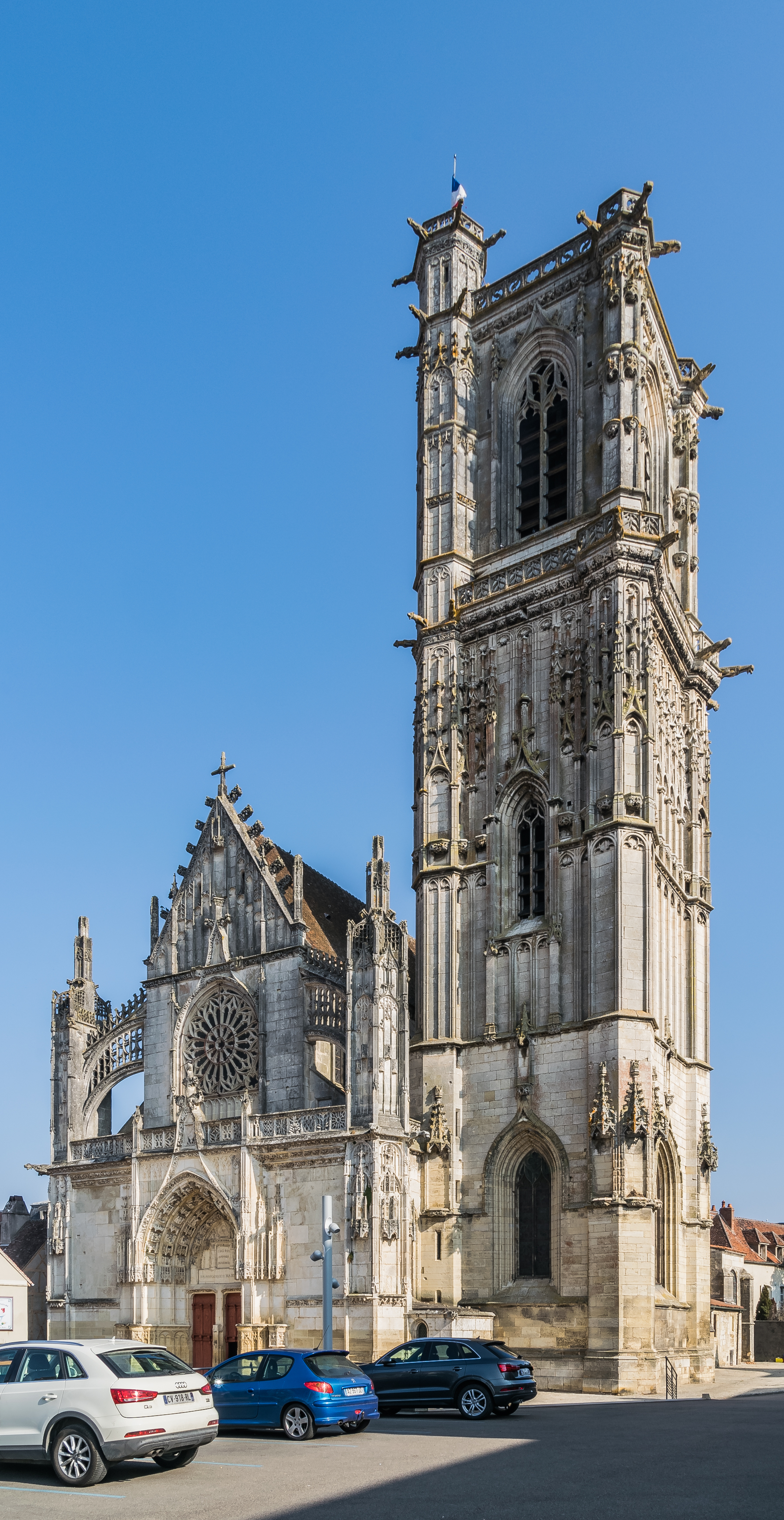 Saint Martin church in Clamecy, Nièvre, France .